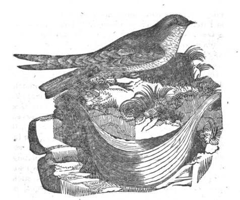 Drawing by John Latham from The Architecture of Birds (1831) James Rennie. London: Charles Knight p 301